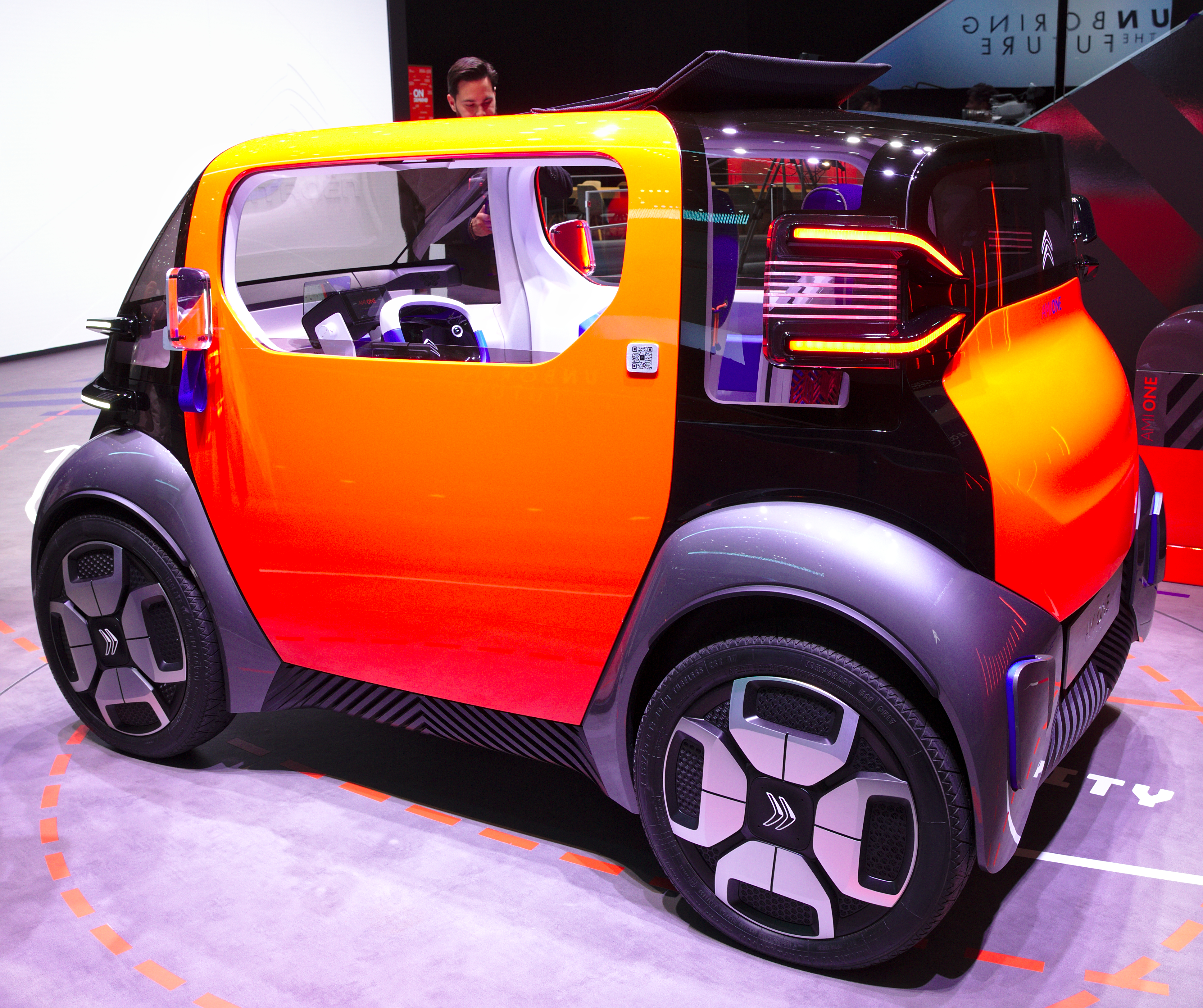 Citroën Ami One Concept at Geneva Motor Show 2019